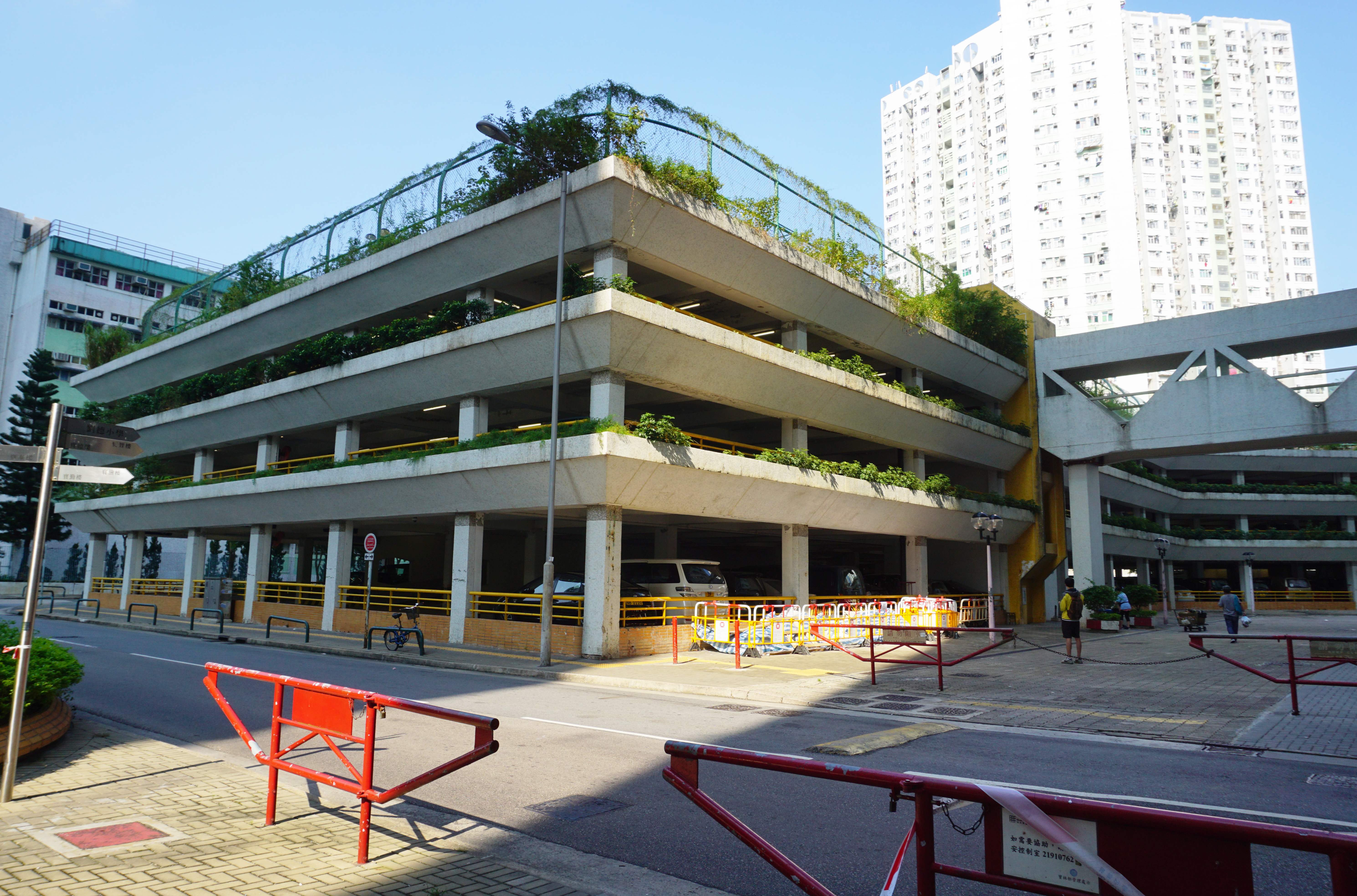 Po Lam Estate in Po Lam, Hong Kong.